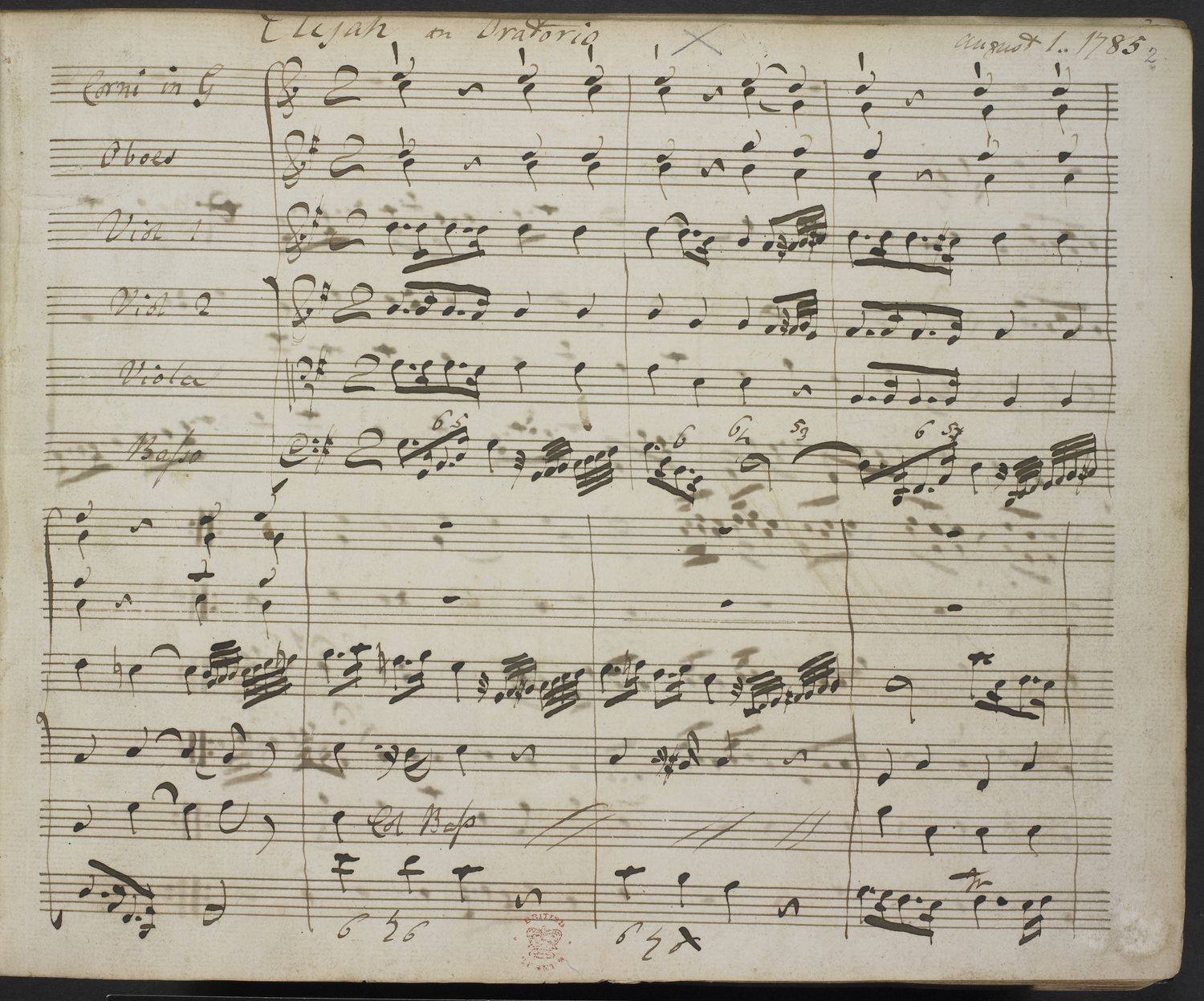 Elijah, an oratorio. In the composer's hand.